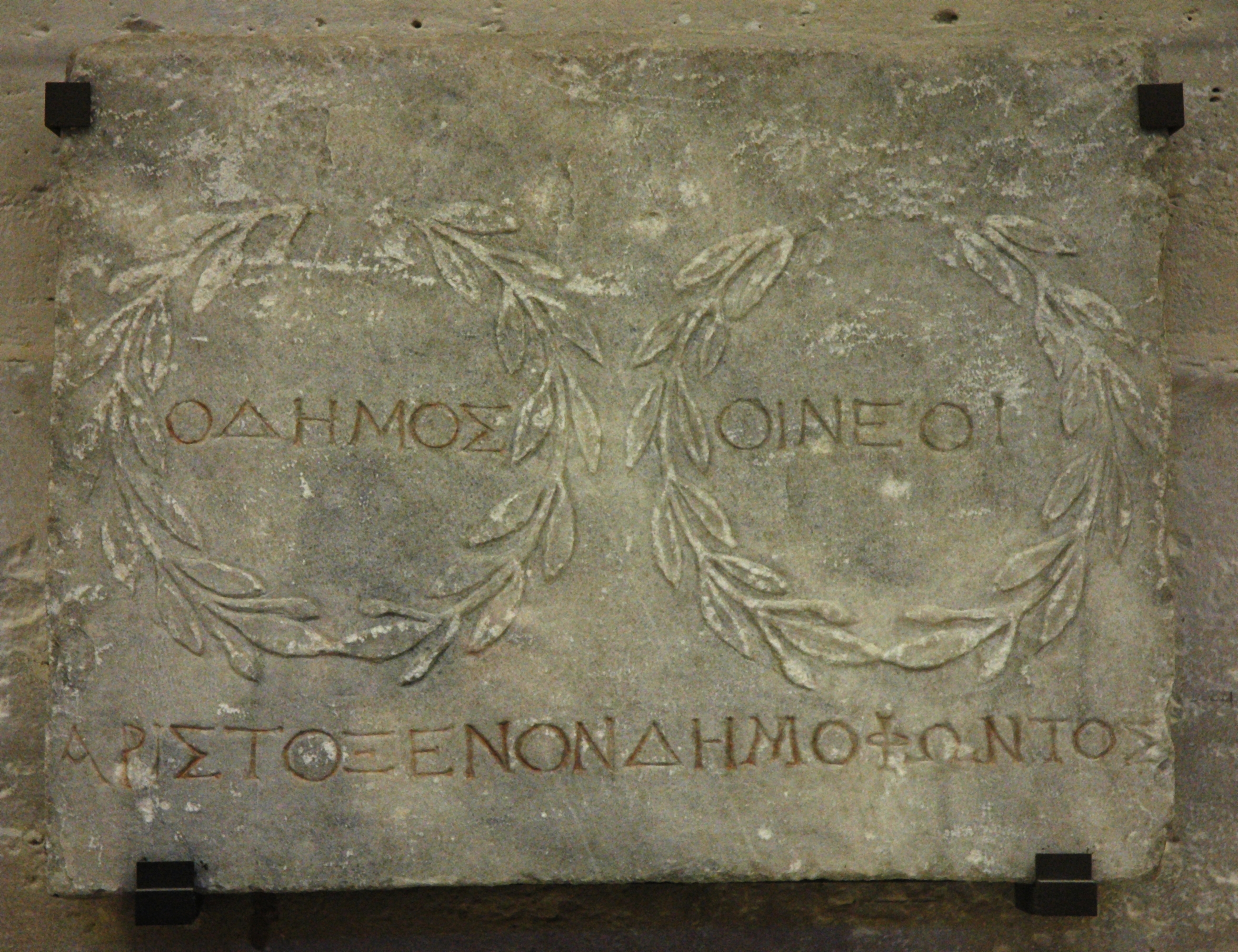 Honorific inscription praising Aristoxenos, son of Demophon. White marble stele, end of the 3rd century BC or 2nd century BC, found in Athens. The inscription reads: Ο ΔΗΜΟΣ ΟΙ ΝΕΟΙ ΑΡΙΣΤΟΞΕΝΟΝ ΔΗΜΟΦΩΝΤΟΣ / "the people and the young [honor] Aristoxenos, son of Demophon".